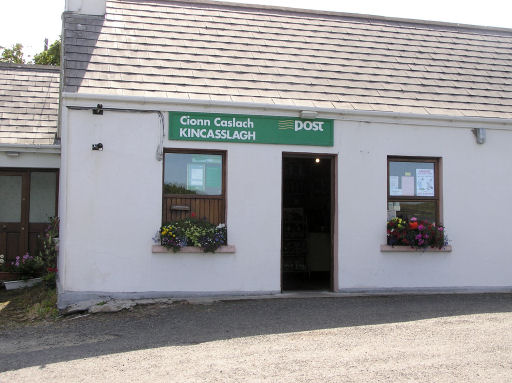 Kincasslagh Post office. This simple building, with typical white walls and green sign, serves as a local post office. It is tucked away from the main road and I stumbled upon it by accident